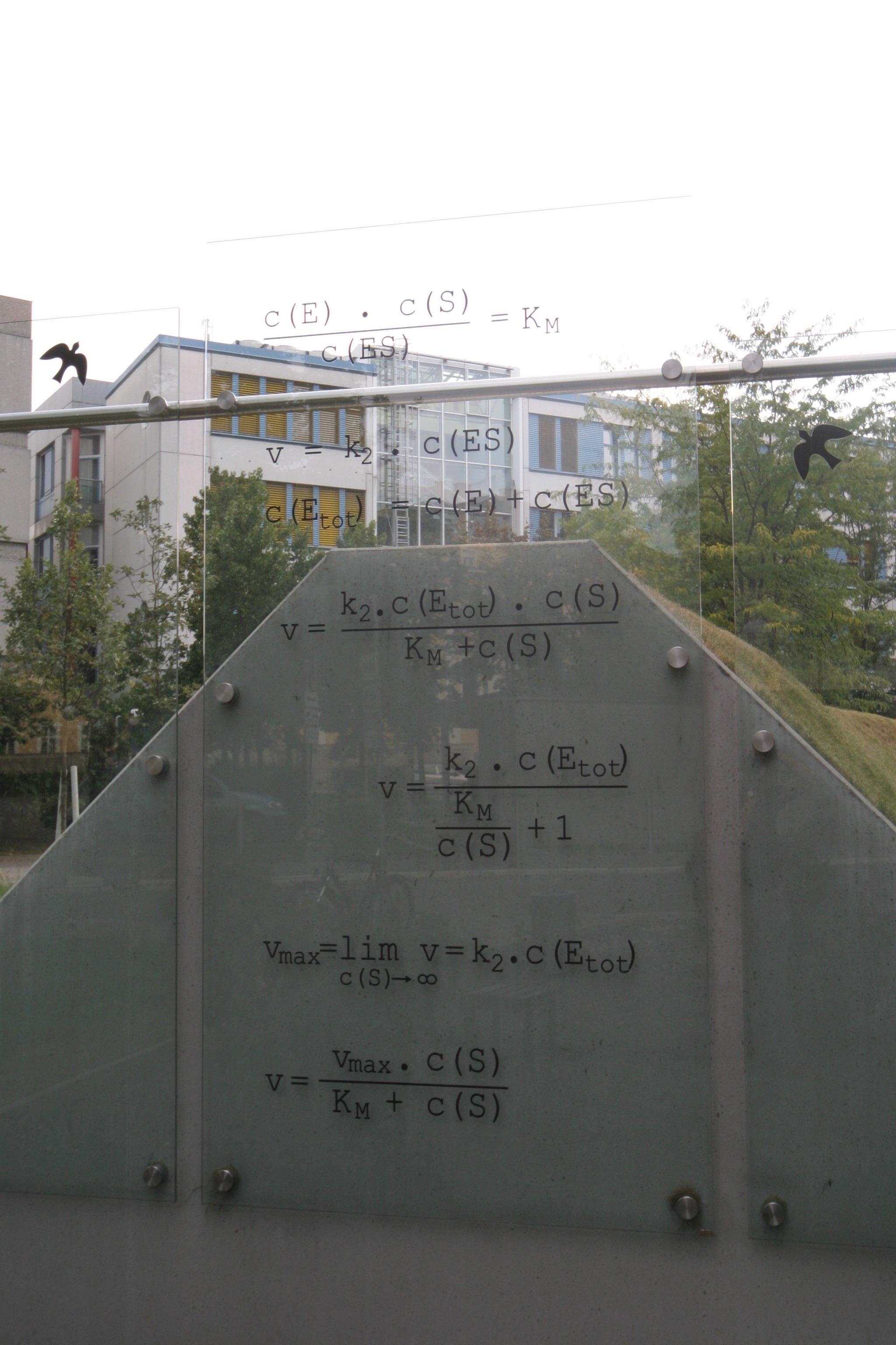 One building at Graz University of Technology. The model takes the form of an equation describing the rate of enzymatic reactions, see Michaelis–Menten kinetics